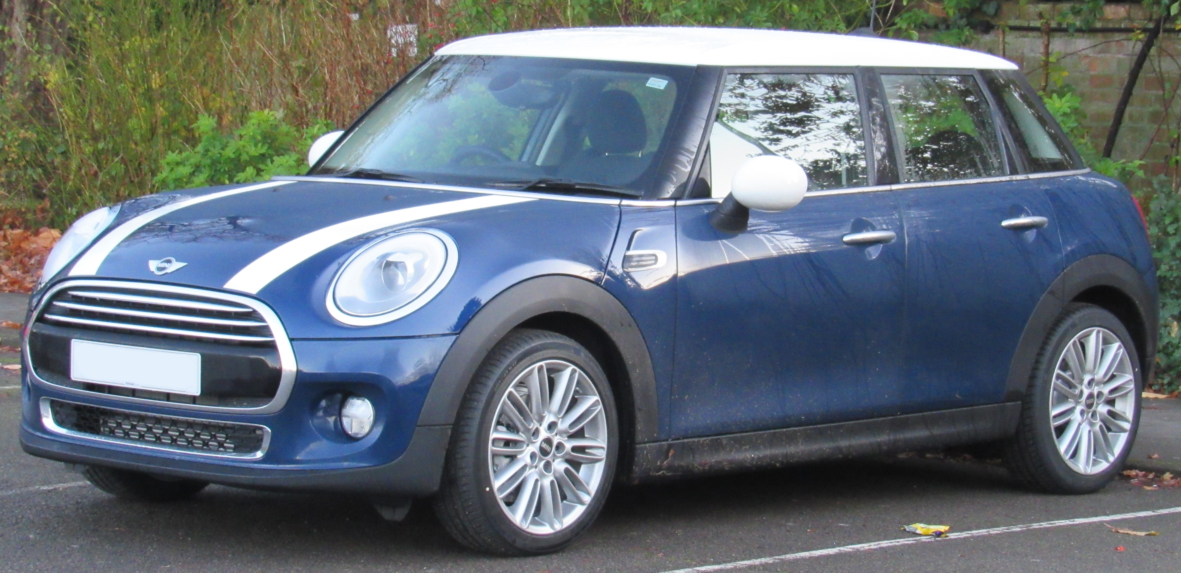 2017 Mini Hatch (F56) 1.5 Taken in Leamington Spa